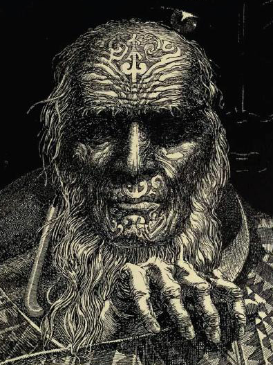 Matapo, the oldest of his people